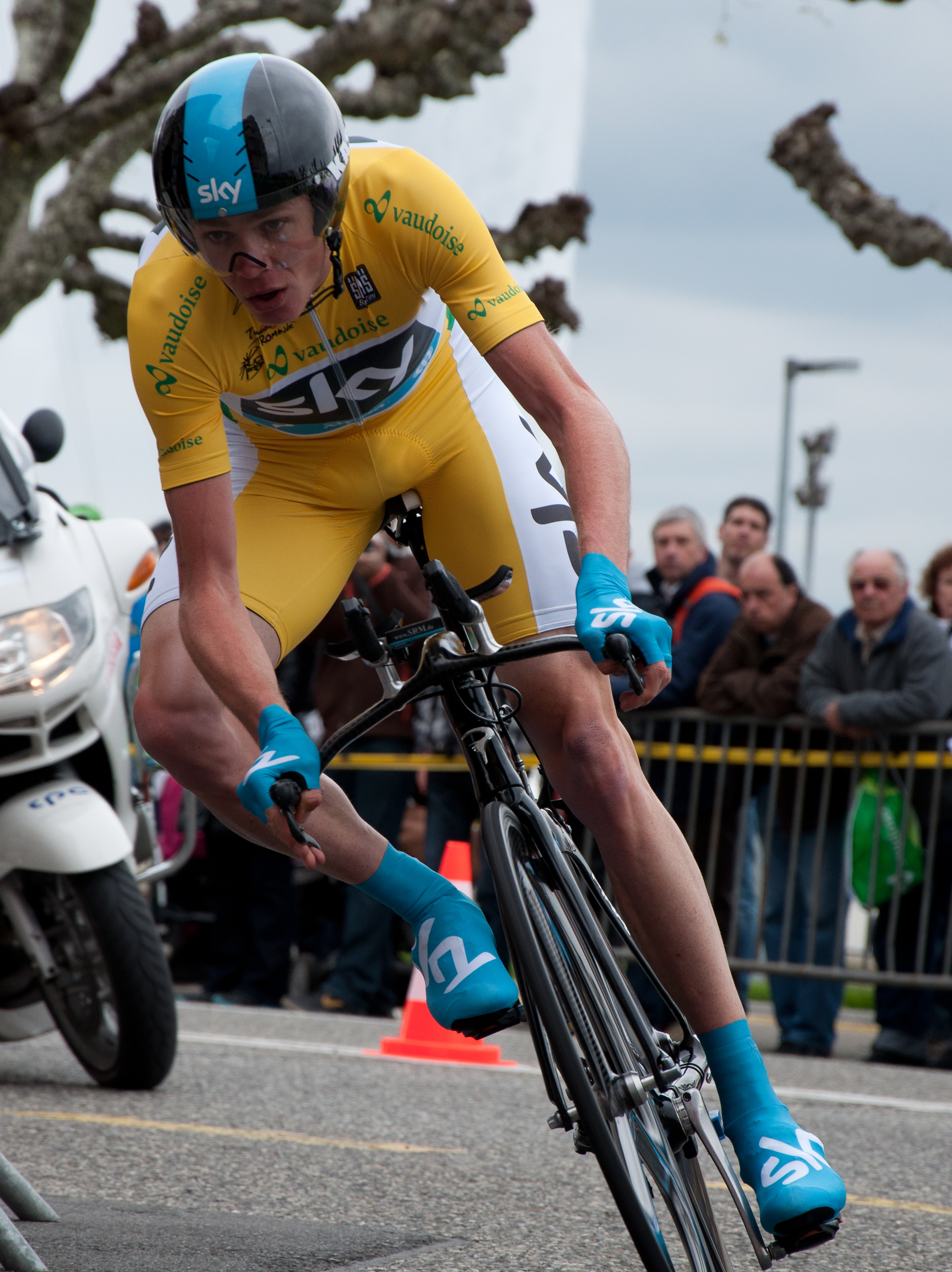 Christopher Froome racing the fifth stage (time trial) of Tour de Romandie 2013 in Genava.